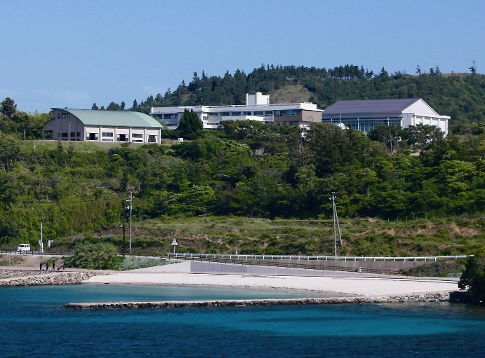 okidozen highschool view.